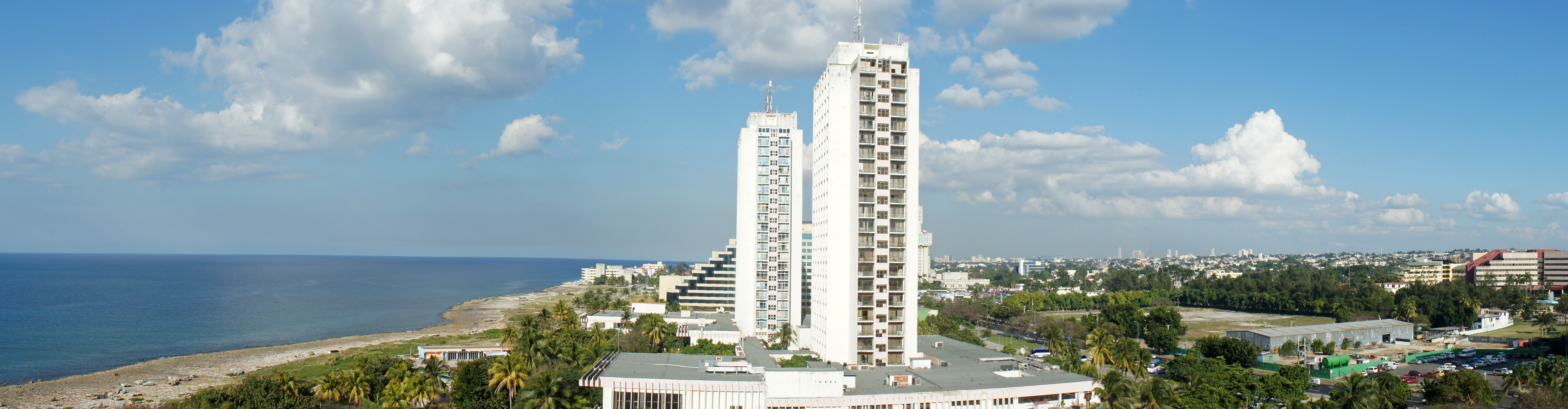 Panoramic view of Miramar beachfront, Havana